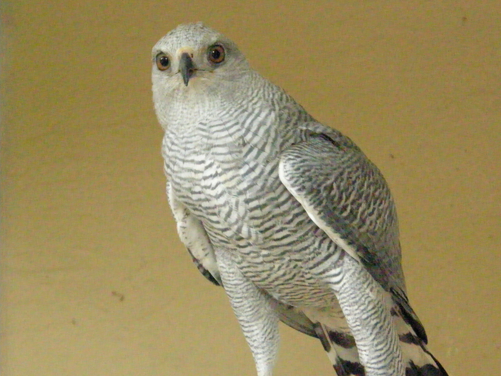 Grey Hawk Buteo plagiatus, or Grey-lined Hawk Buteo nitidus